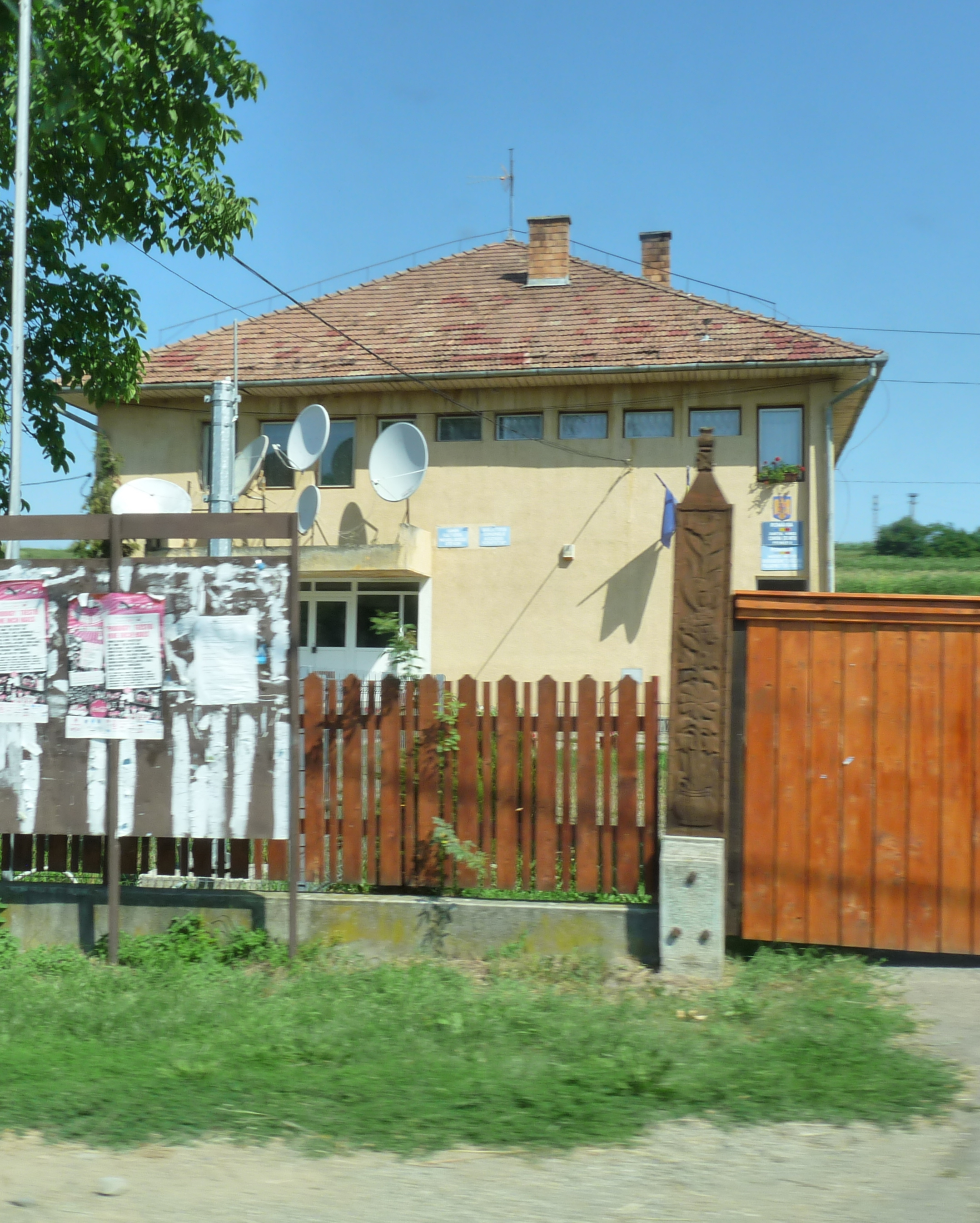 Town hall in Eremitu, Mureş County, Romania